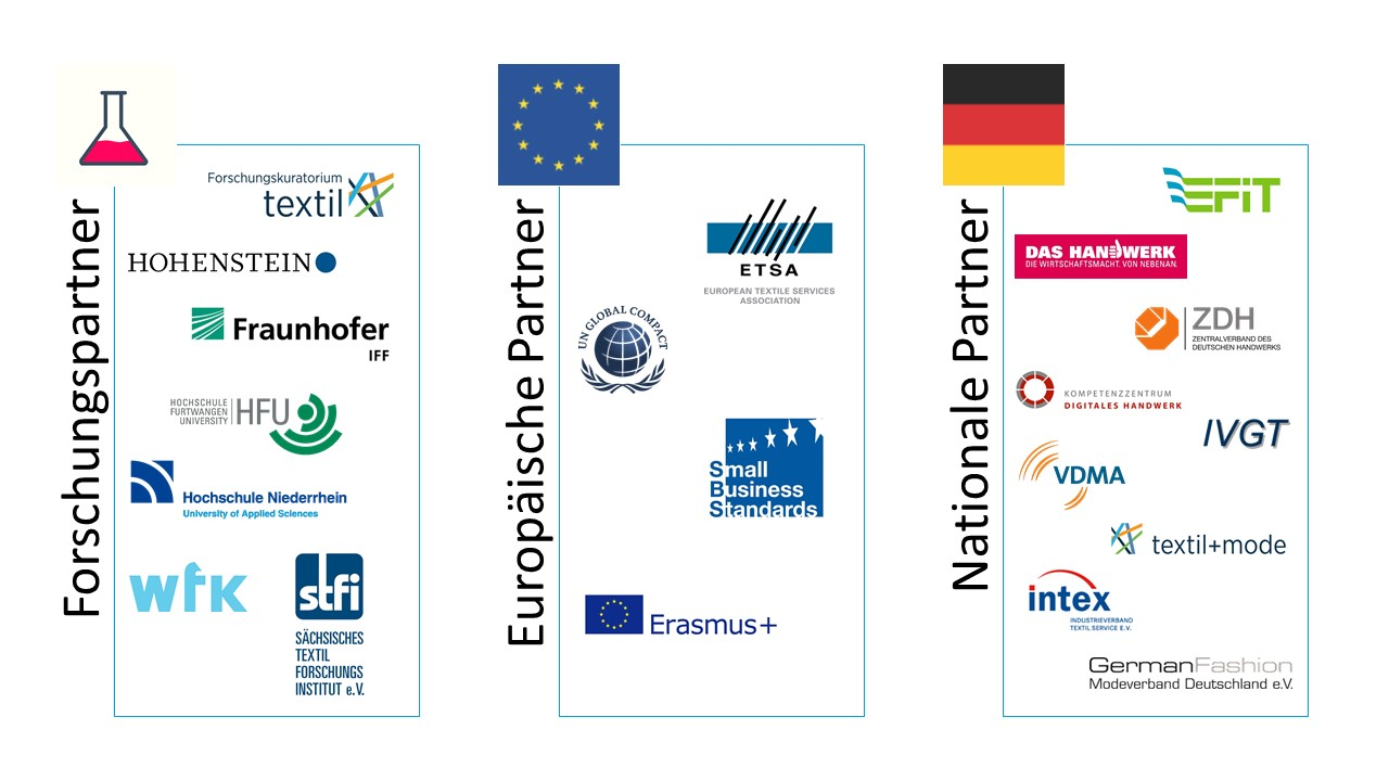 Associations and cooperation partners